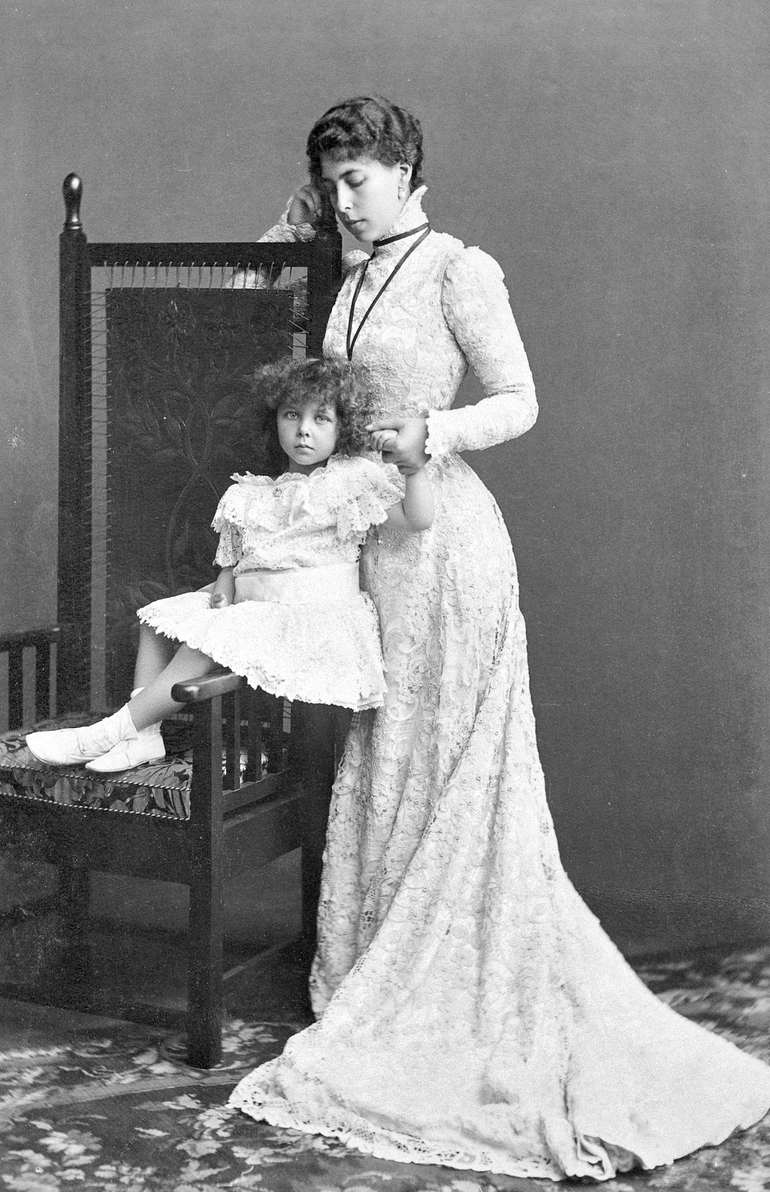 Victoria Melita, Grand Duchess of Hesse, stands looking down at her daughter, Princess Elizabeth, who is seated on the arm of a chair looking to front. The Duchess holds her daughter's left hand.